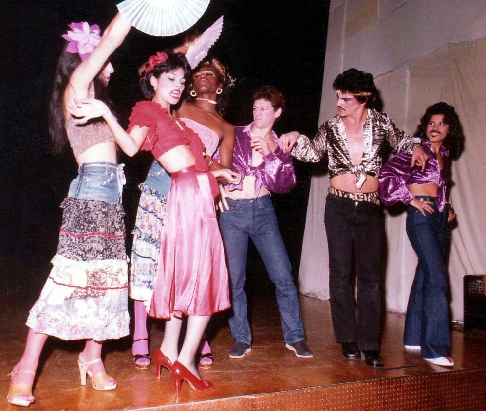 "America" in Wild Side Story, l-r: Robert Flores, Anna Sandoval, Michael Williams, Juan Iglesias, Steve Vigil & Lucy Lopez, as released by image creator Lars Jacob ProdPlace: Matlos Flama Latina, 1657 N. Western Avenue, Los Angeles, California